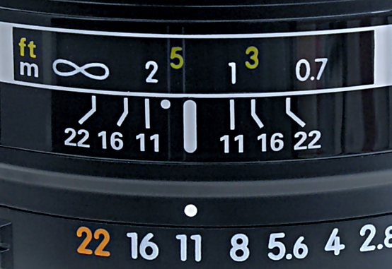 DOF scale detail on a Nikon lens